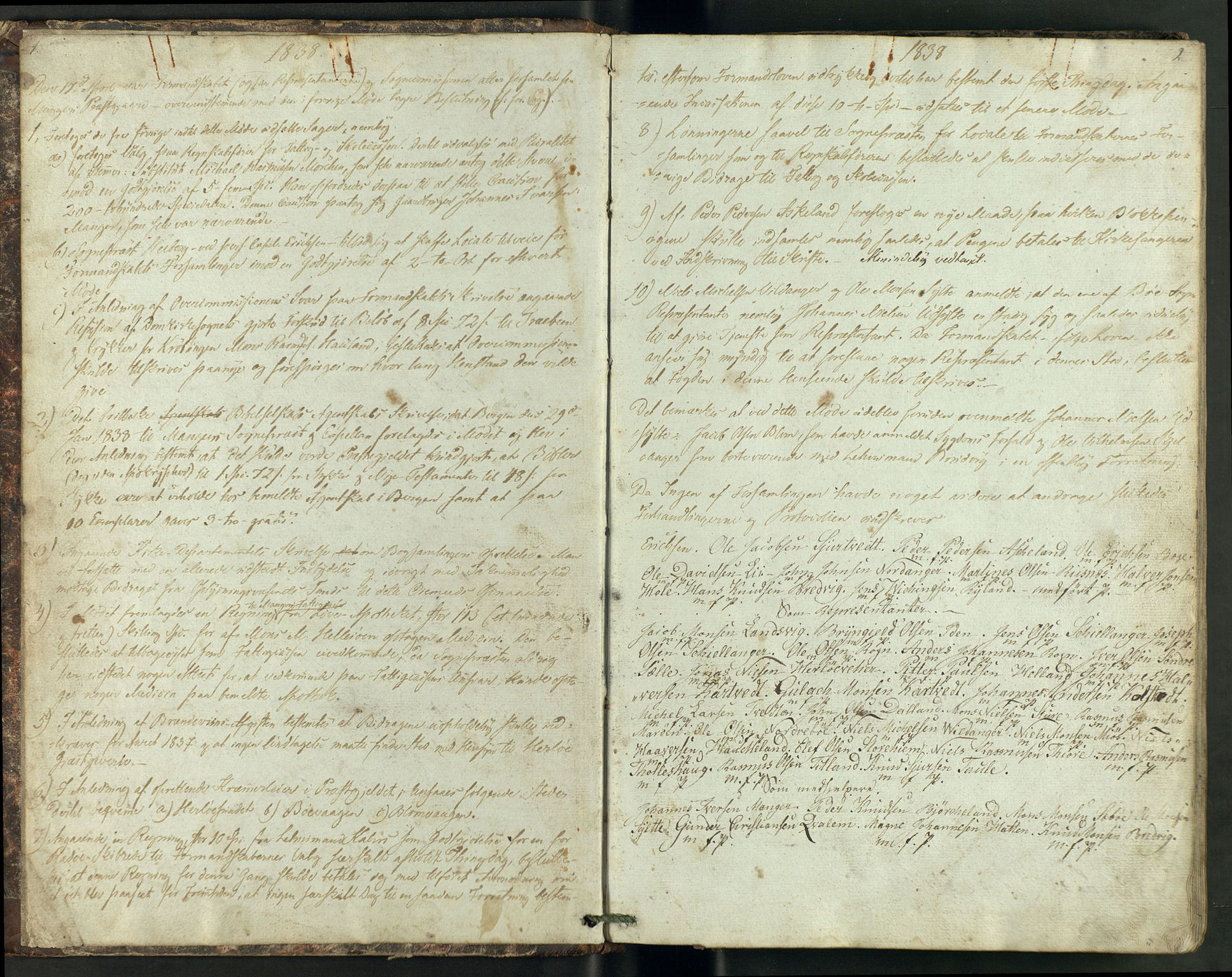 anger kommune. Formannskapet, A/Aa/L0001B: Møtebok for formannskap, heradsstyre og soknestyre, 1858-1880